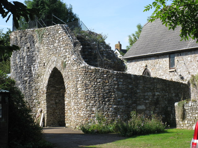 Hemyock Castle This is the main part of the castle that remains.